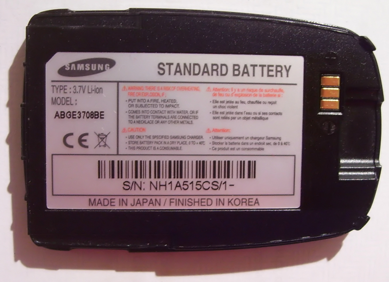 The Lithium ion battery from Samsung mobile phone.